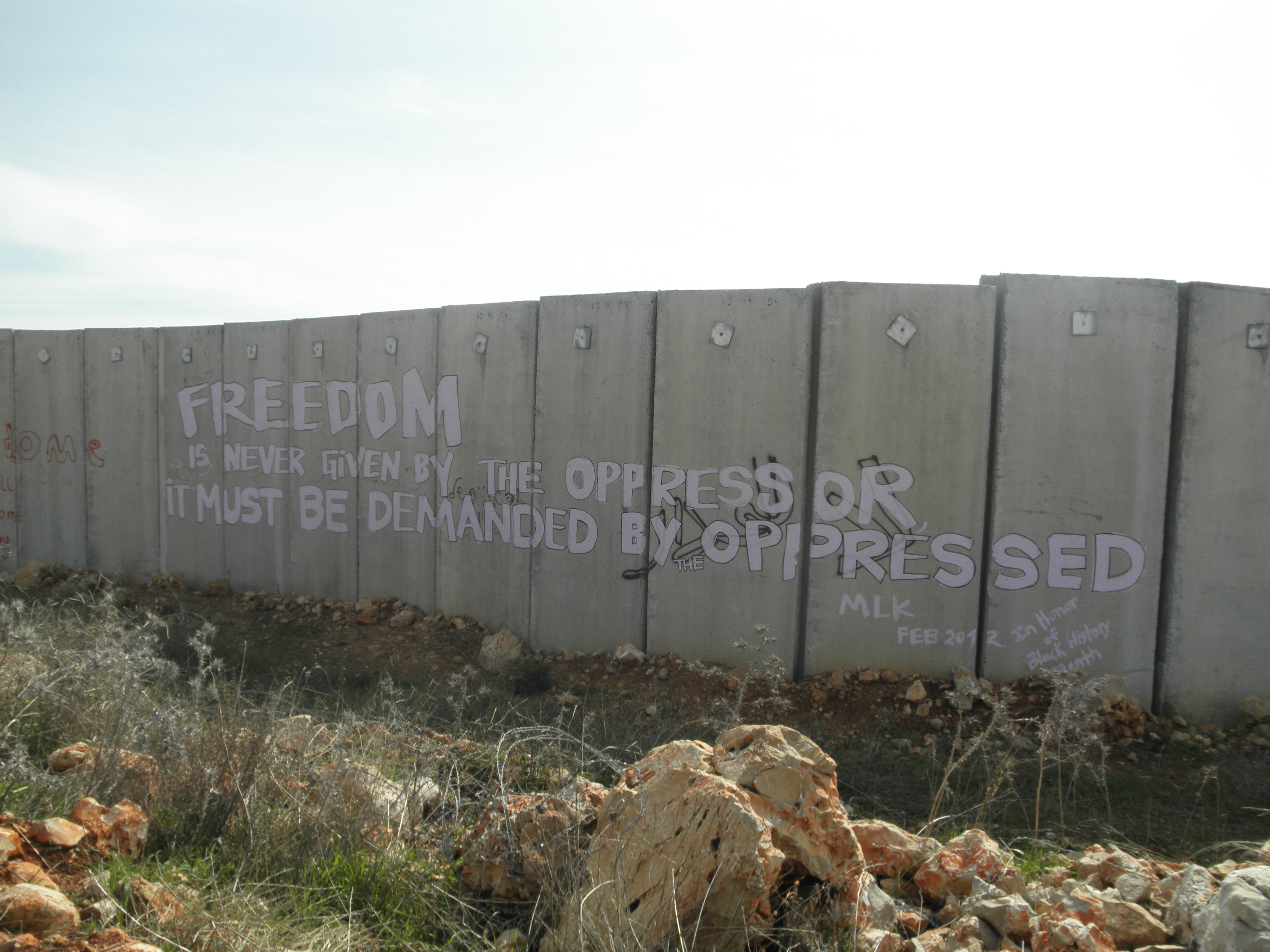 A quote from Martin Luther King "freedom is never given by the oppressor; it must be demanded by the oppressed" written on the seperation wall in Ni'lin by International Solidarity Movement activist, February 2012